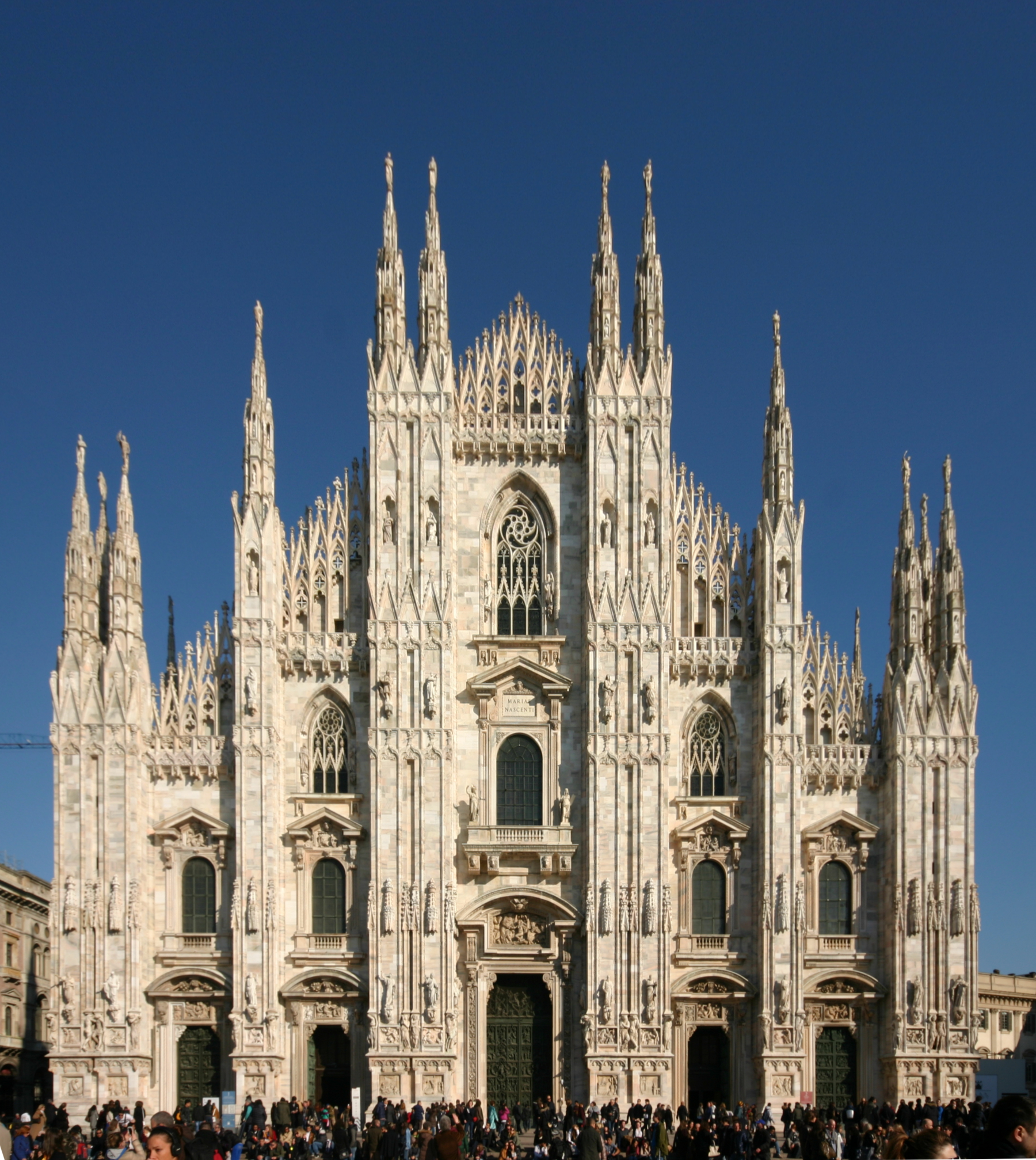 Facade - Duomo - Milan